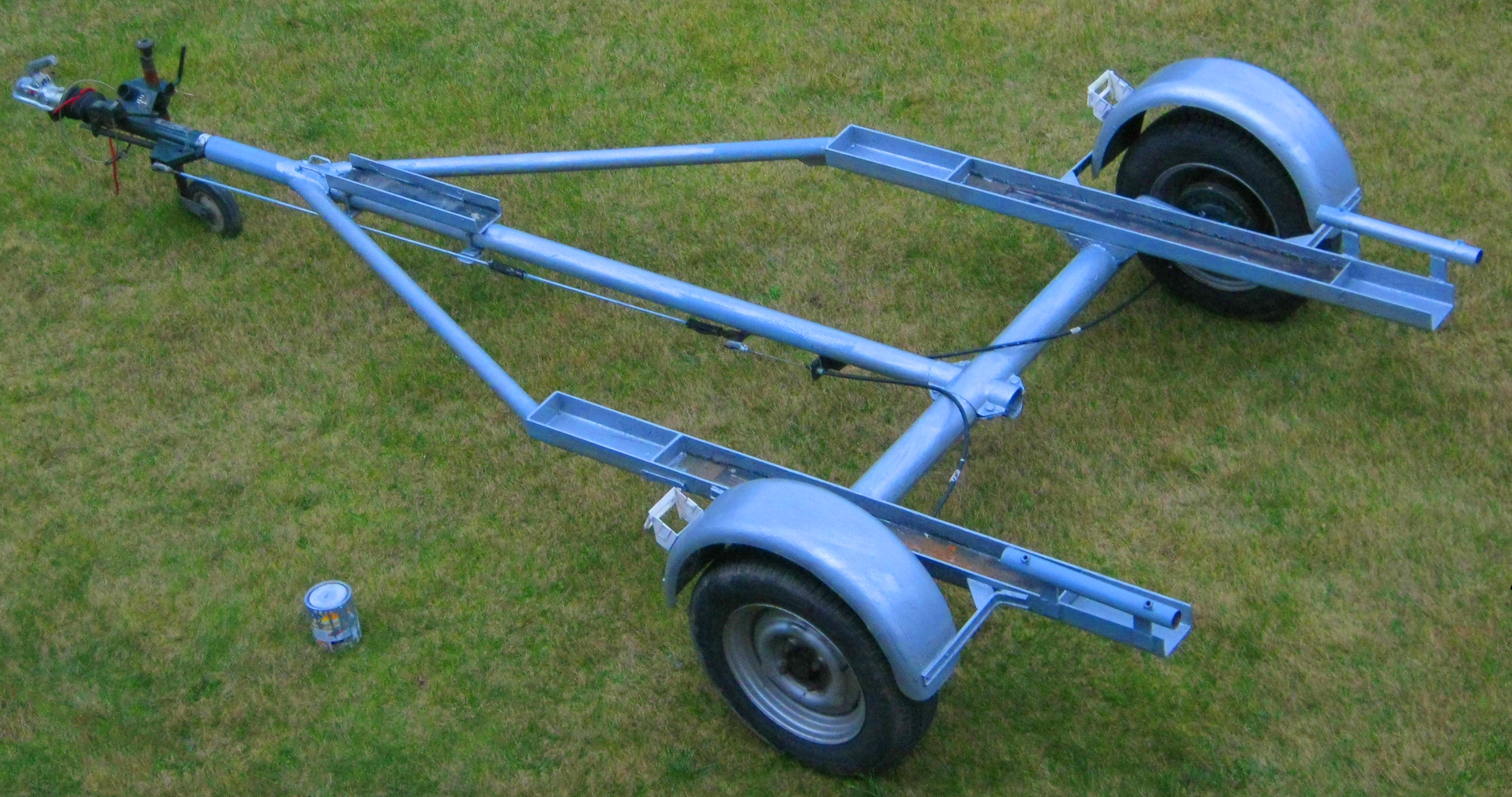 Leisure 17 Trailer